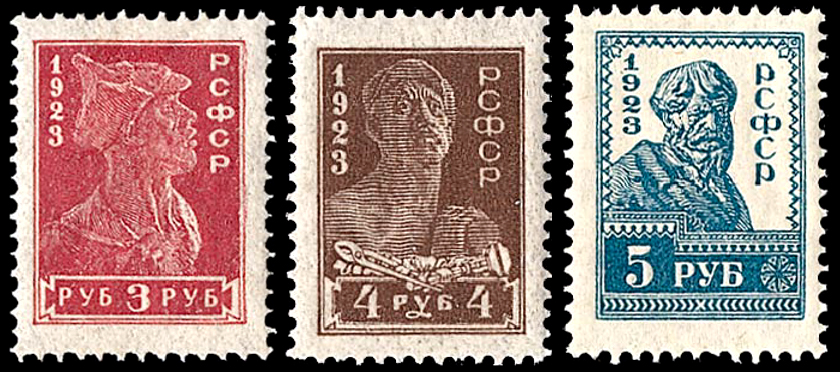 RSFSR 4th standard postage stamps, 1923, 3, 4 and 5 roubles